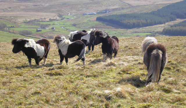 Grisedale Common. Shetland ponies a long way from home. Looking down into Grisedale.